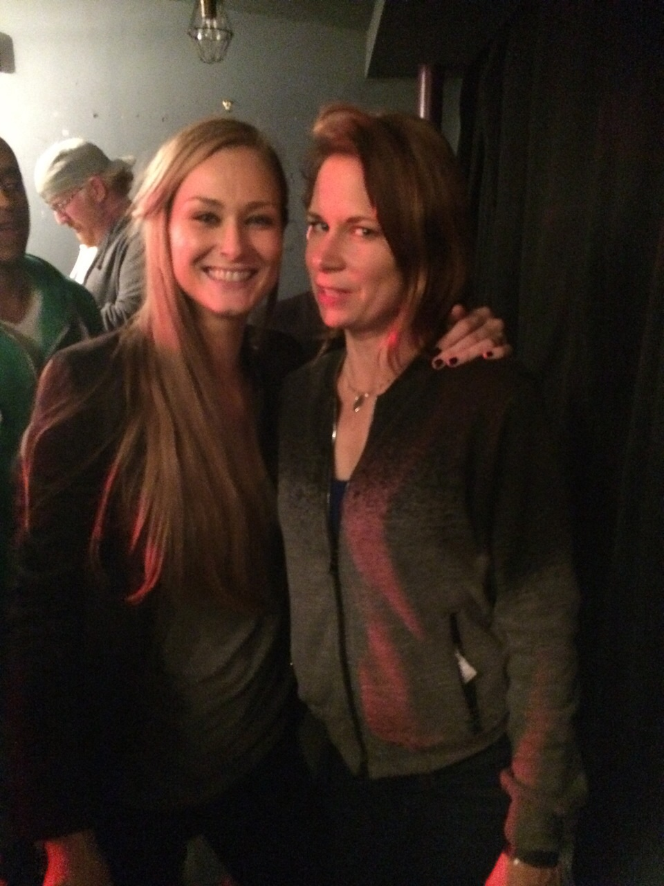 Sarah Lawrence attending the Comedy Club in LA